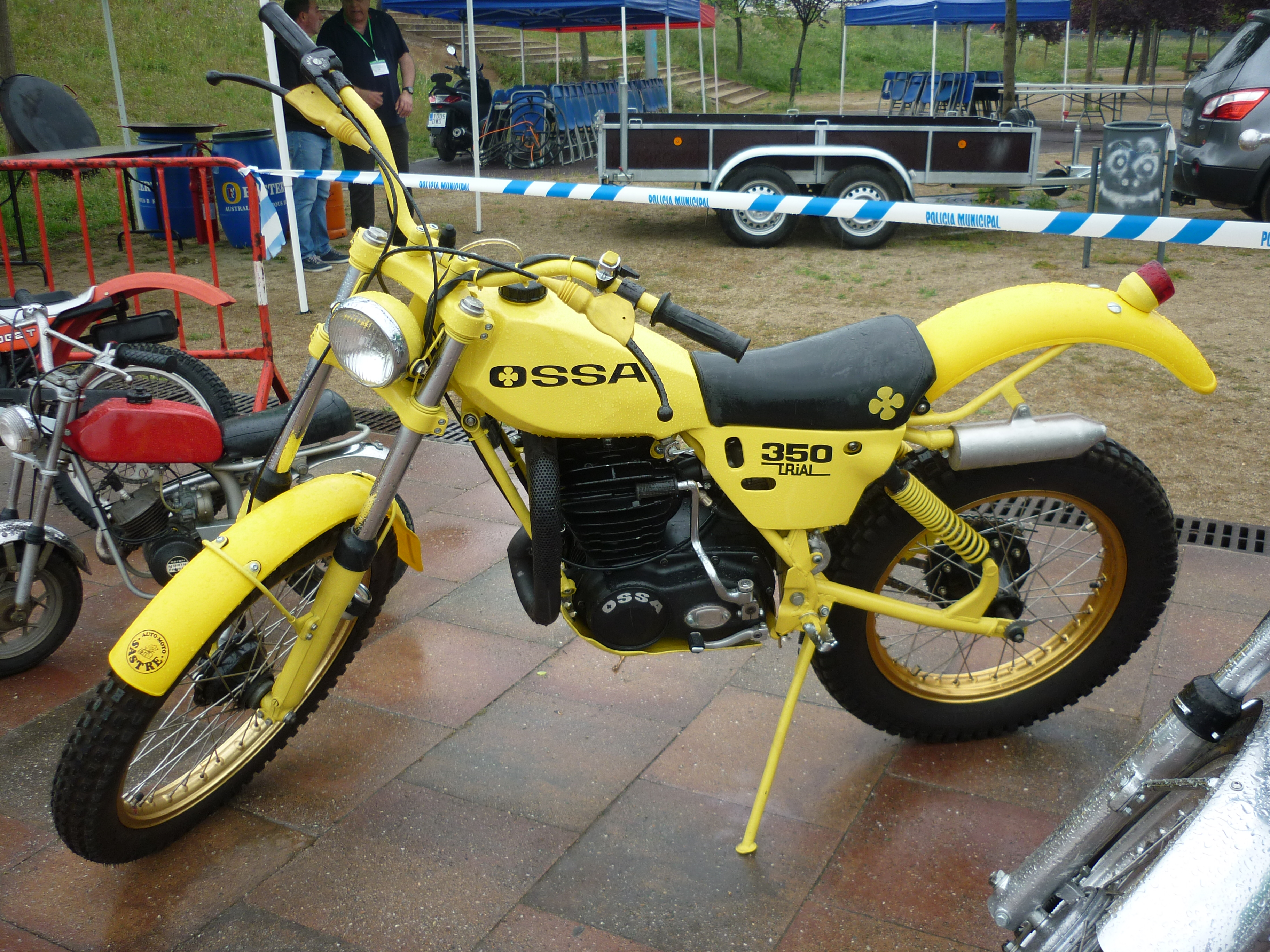 Ossa TR-80, 1980